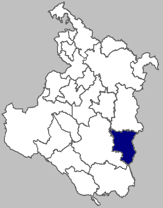 Self-made map of Cetingrad municipality within Karlovac County. Category:Croatia county maps Summary Self-made map of Cetingrad municipality within Karlovac County.